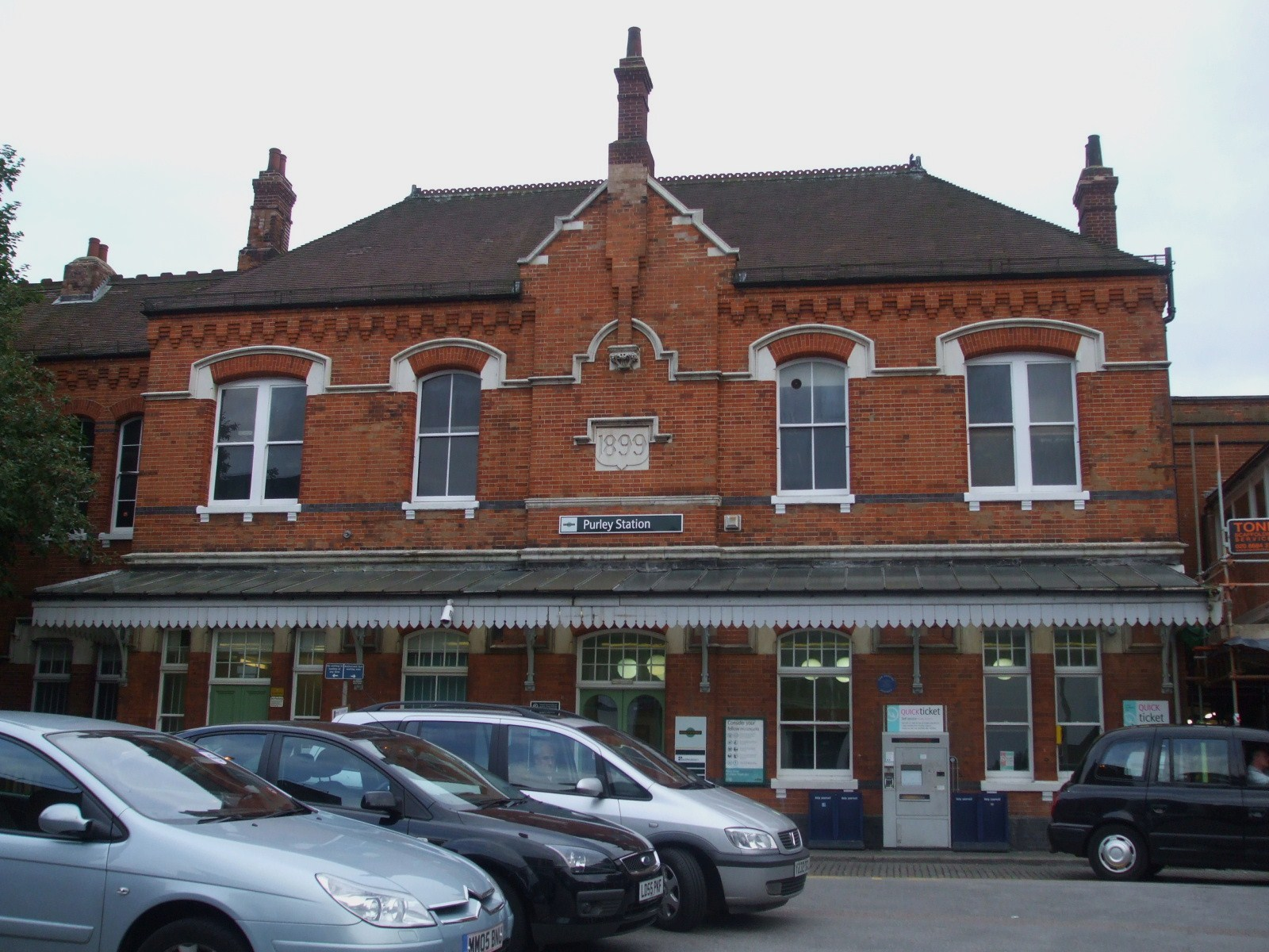 Purley station entrance